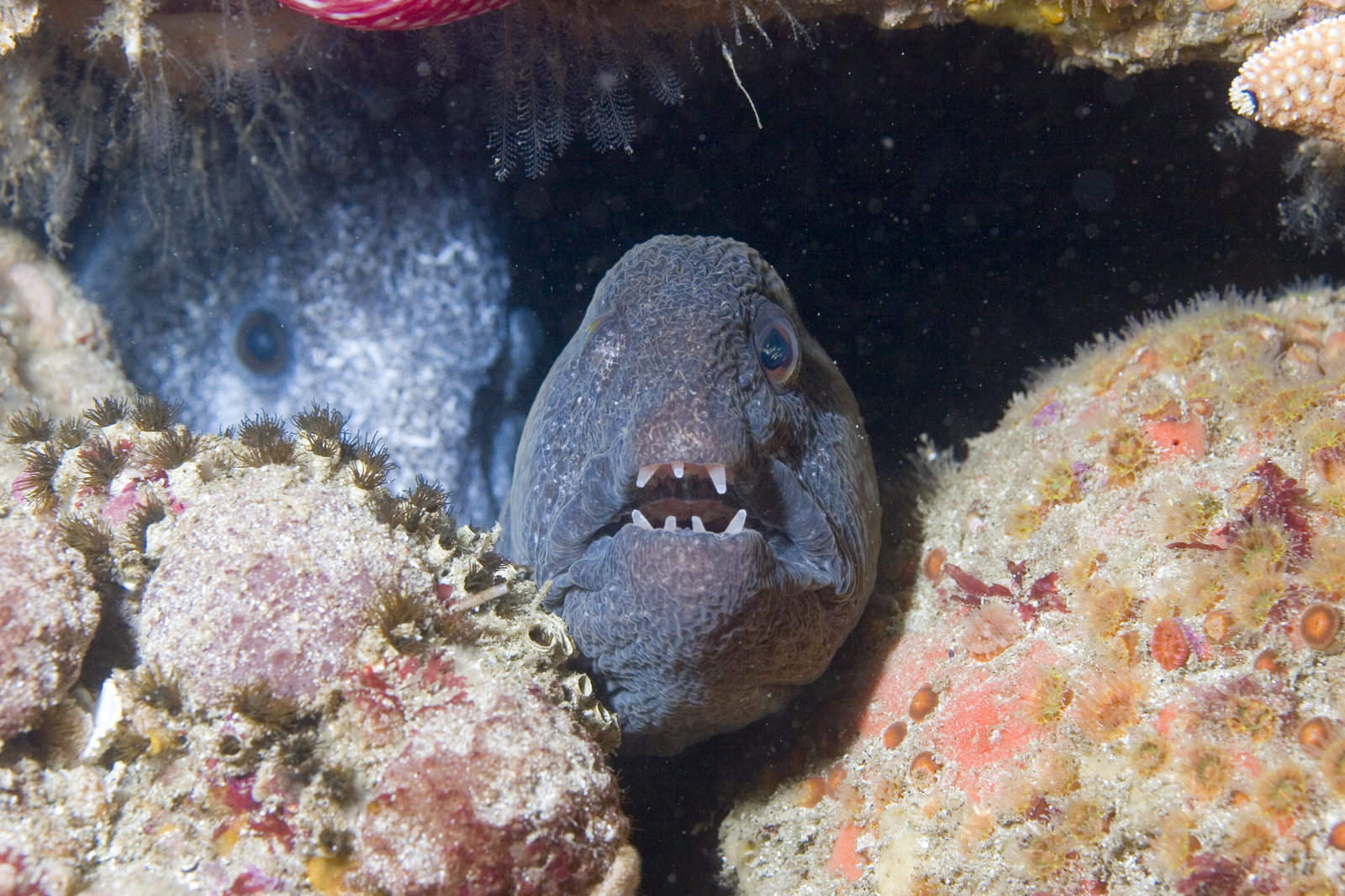 A small wolf eel (Anarrhichthys ocellatus) emerging from a small cave. Note the much larger wolf eel looming in the background.